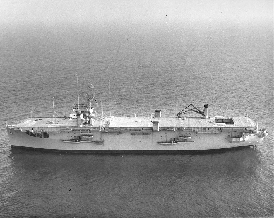 Former escort carrier USS Croatan in service for NASA, 1964